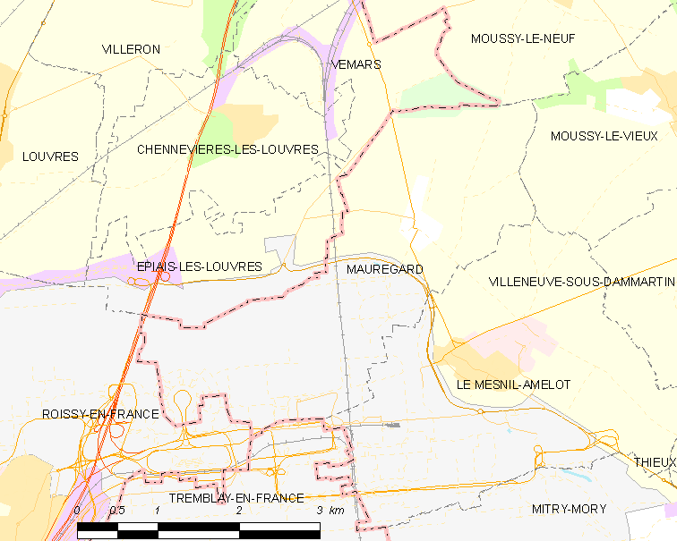 Map of French municipality Mauregard